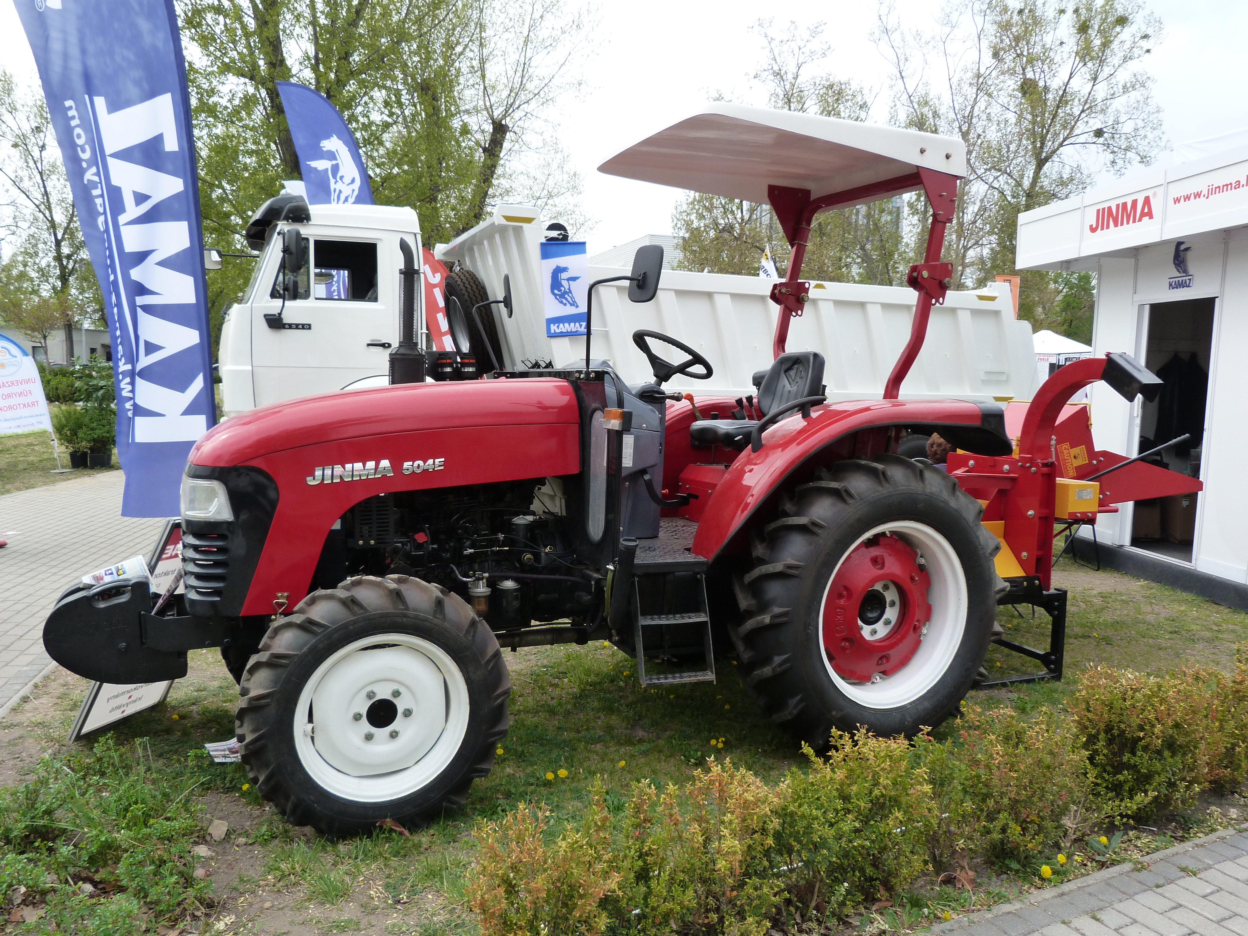 Live on the 17th of April, 2015. Construma Exibition. JINMA 504E. ©© Derzsi Elekes Andor, Budapest, 2015, Published in the Metapolisz DVD line. You are authorised to use this photo under Creative Commons – even for commercial, for profit purposes. The photo must be attributed to Derzsi Elekes Andor. All of the photos and vids in the Metapolisz DVD line are under Creative Commons and can be used even for commercial – for profit – purposes. Recommended Citation Derzsi Elekes Andor: Metapolisz DVD line